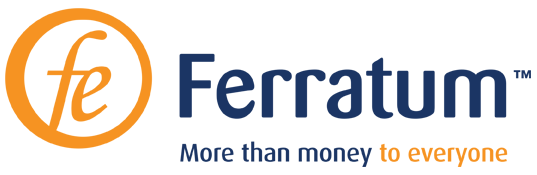 Logo for the company Ferratum Group